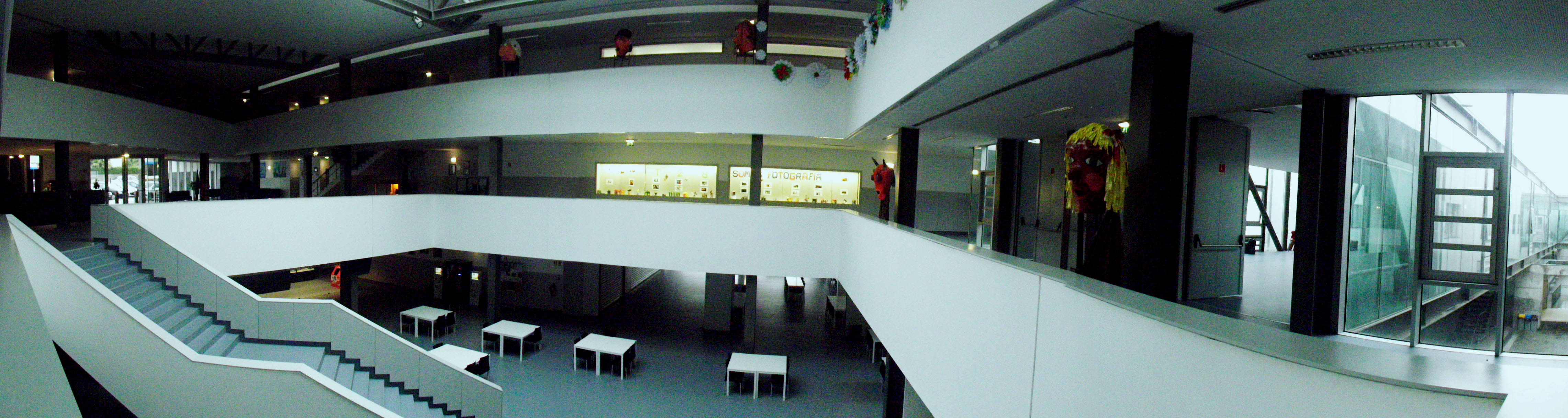 Secondary School of Rio Tinto - Portugal